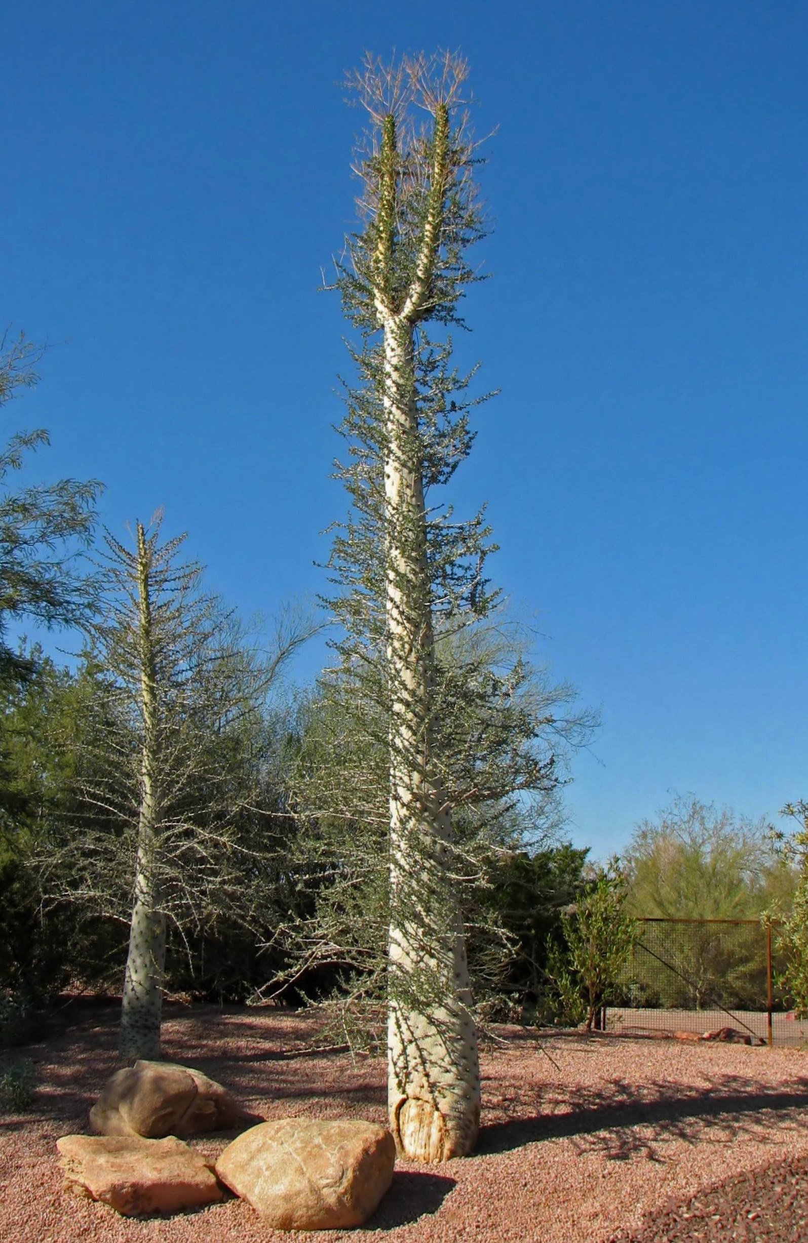 Boojum tree (Fouquieria columnaris), Desert Botanical Garden, Phoenix, Arizona, USA